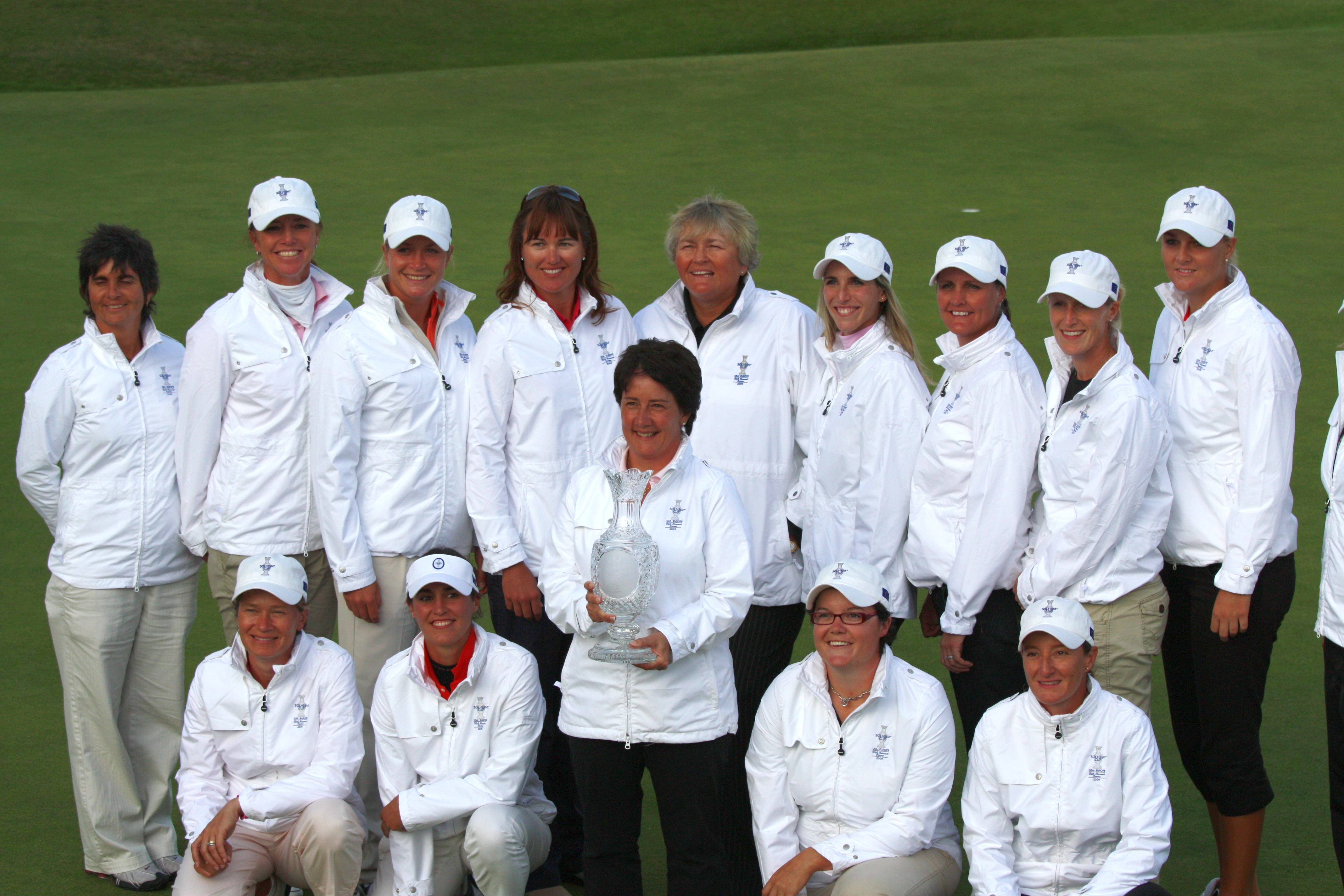 LYTHAM ST ANNES, UNITED KINGDOM - AUGUST 02: The European Solheim Cup Team, posing for a photograph after announcement of Solheim Cup teams, which followed final round of the 2009 Ricoh Women's British Open held at Royal Lytham & St Annes on August 2, 2009 in Lytham St Annes, England. Clockwise from top-left: Joanne Morley, Helen Alfredsson, Suzann Pettersen, Sophie Gustafson, Laura Davies, Diana Luna, Maria Hjorth, Janice Moodie, Anna Nordqvist, Gwladys Nocera, Becky Brewerton, Alison Nicholas, Tania Elósegui, and Catriona Matthew. (Photo by Wojciech Migda)